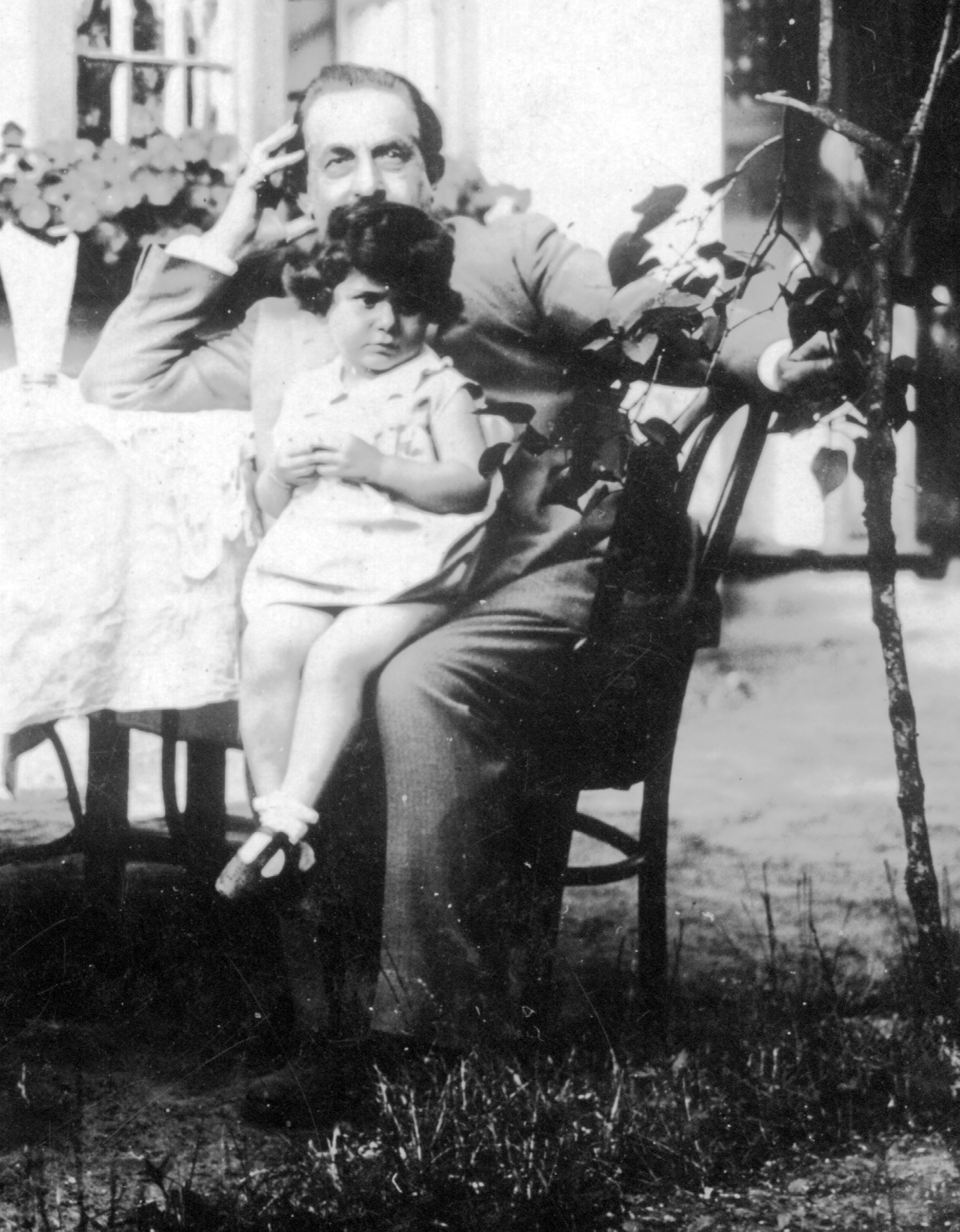 Edward Flatau and Joanna Flatau, his daughter